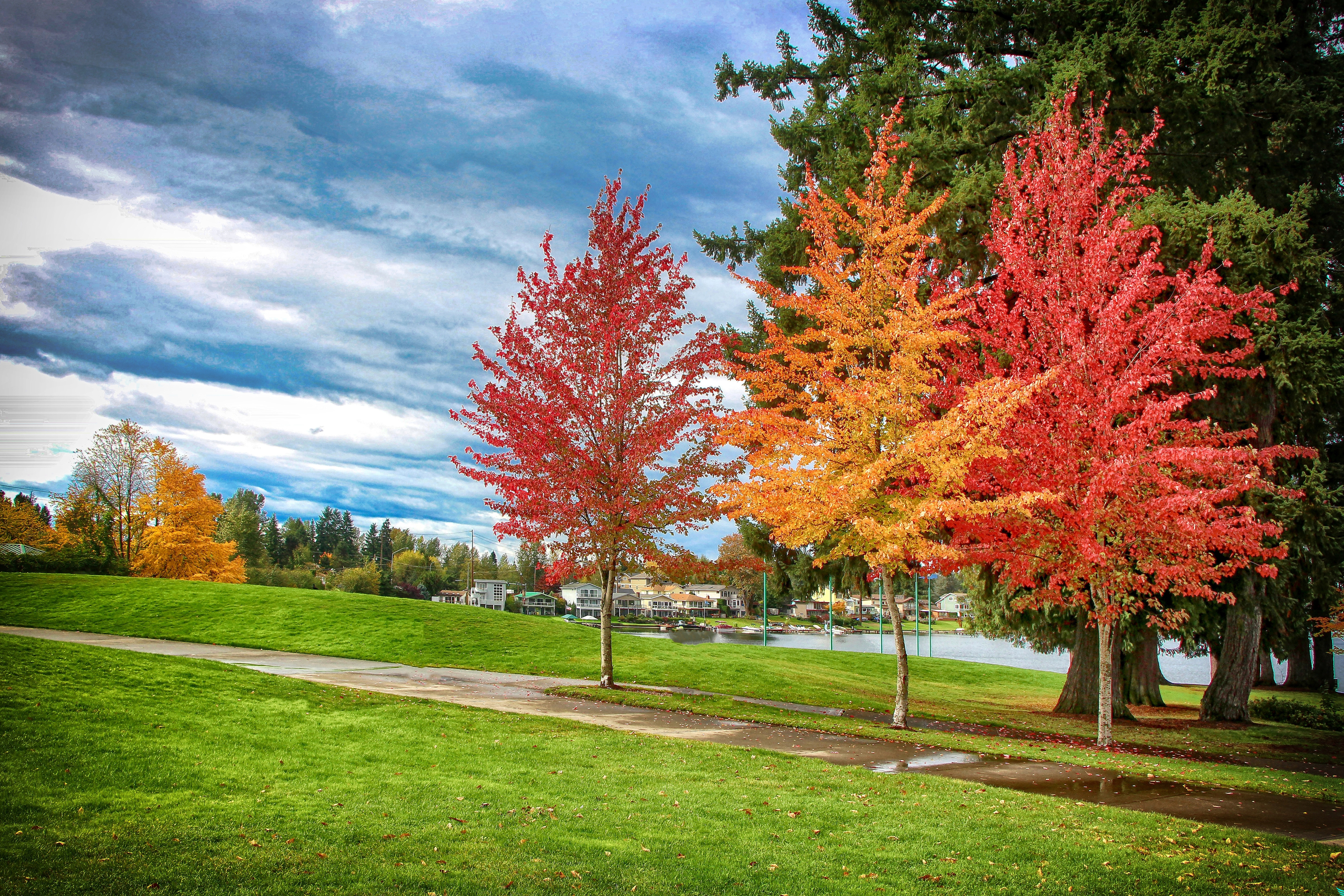 Again Gorgeous Fall - Lake Meridian Kent WA